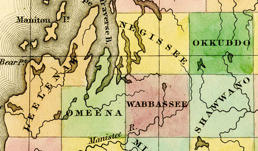 Detail of A New Map of Michigan With Its Canals, Roads & Distances by H.S. Tanner, 1842, showing: Leelanau County (misspelled "Leelenaw") Omeena County (later eliminated and annexed to present-day Grand Traverse County) Meegisee County (misspelled "Negissee") (later renamed Antrim County) Okkuddo County (later renamed Otsego County) Wabassee County (misspelled "Wabbassee") (later renamed Kalkaska County) Shawono County (misspelled "Shawwano") (later renamed Crawford County)